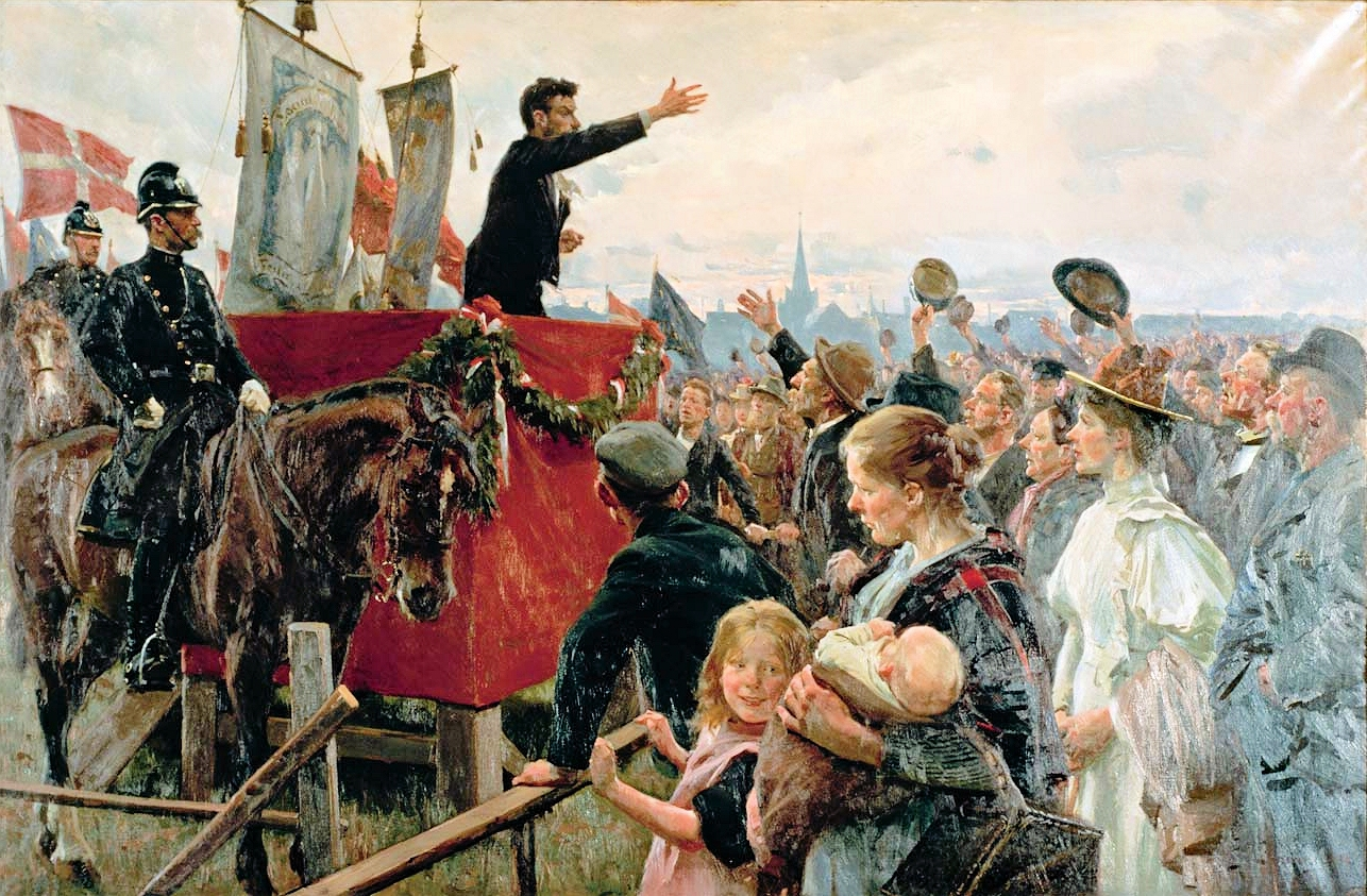 En agitator (An agitator), oil painting by Erik Henningsen